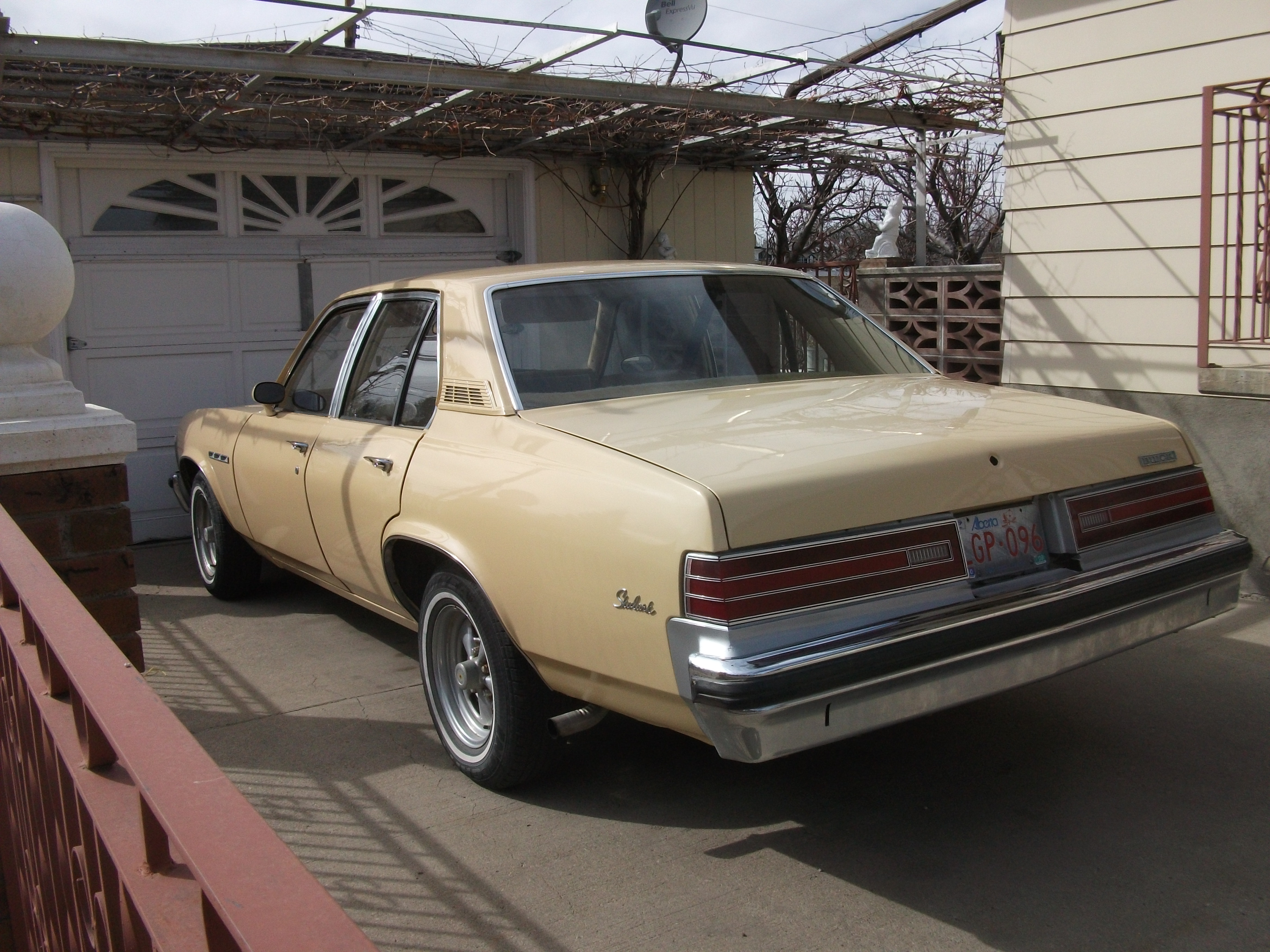 Nova based Buick Skylark - the hear aid beige with mag wheels is a interesting look.